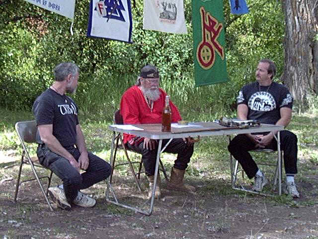 Steve McNallen, Valgard Murray and Hnikar Wood at the IAOA conference at Althing 20, Utah, 2000. Photo by Tom Goldman, not copyrighted.